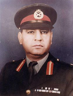 Major General Jilani's official photo.